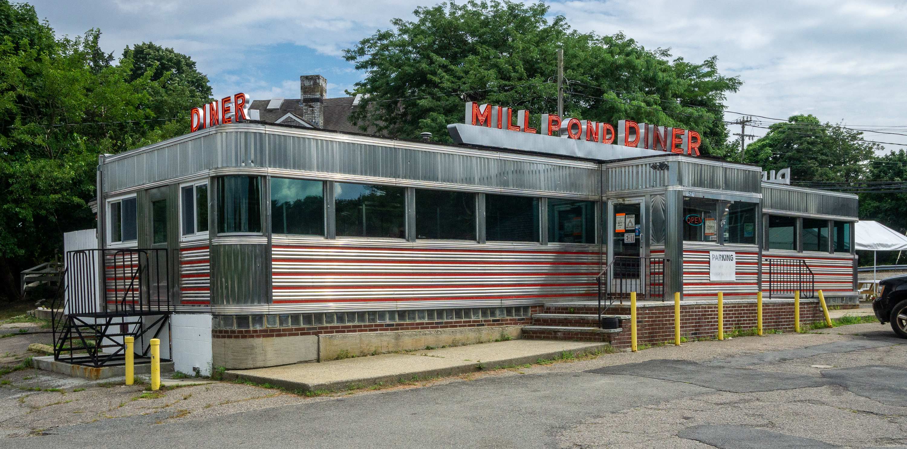 Mill Pond Diner, 2571 Cranberry Hwy, Wareham, Massachusetts. This is a Jerry O'Mahoney Company diner built in the 1950s.